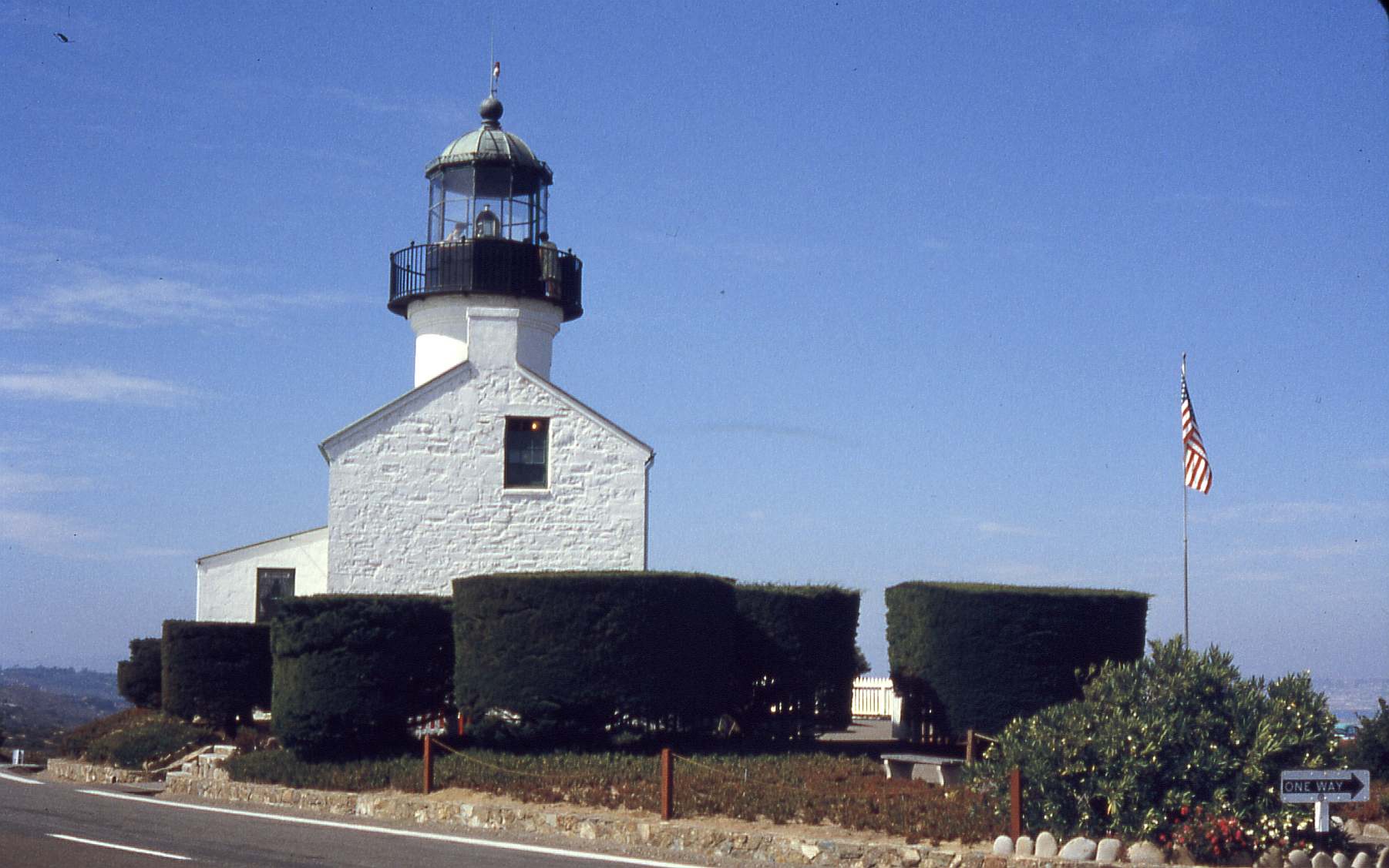 Front side of the Point Loma Cabrillo Monument light house, that faces the Pacific Ocean. Taken with an Exakta VX 35mm camera, using Ektachrome slide film.